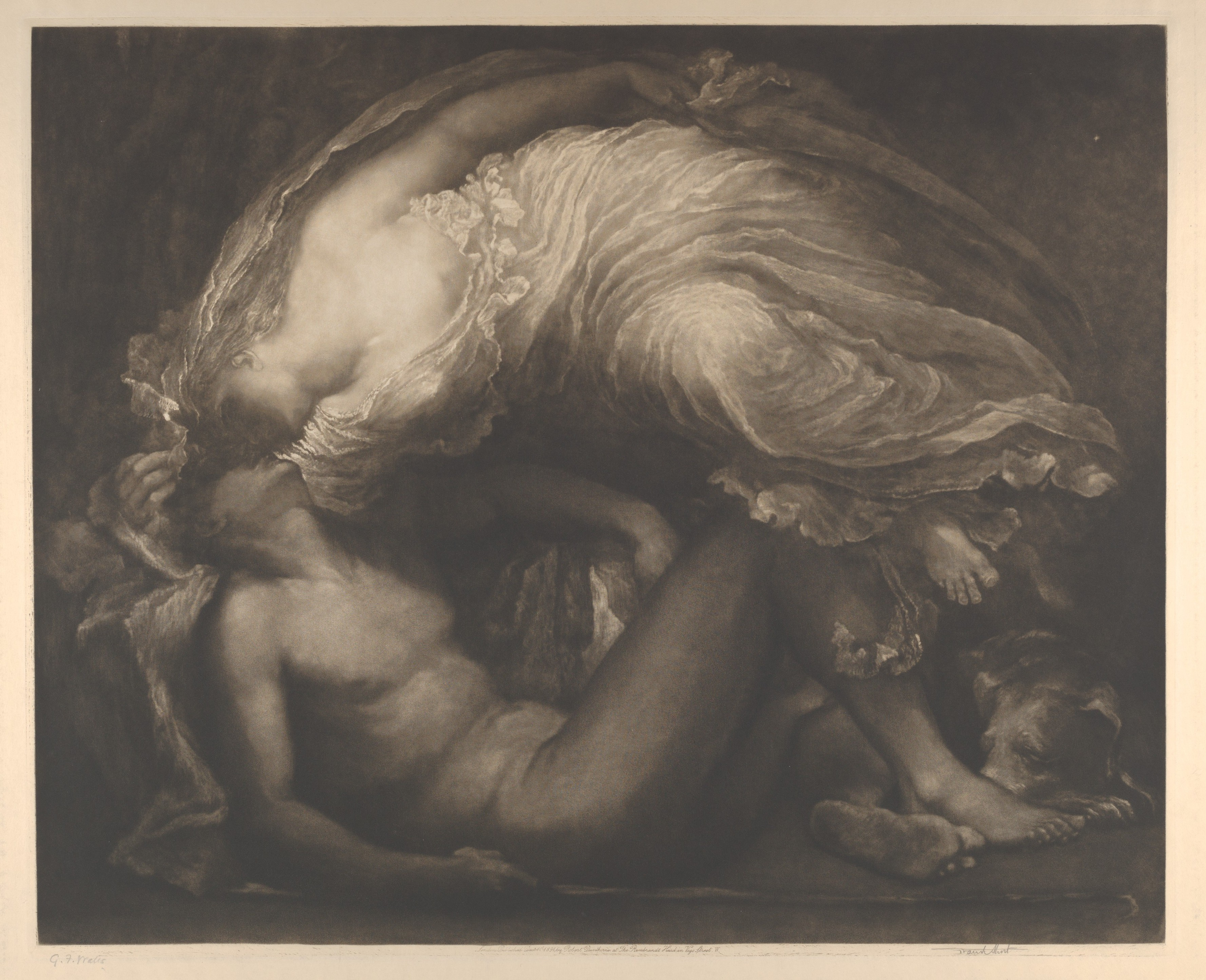 Print; Prints